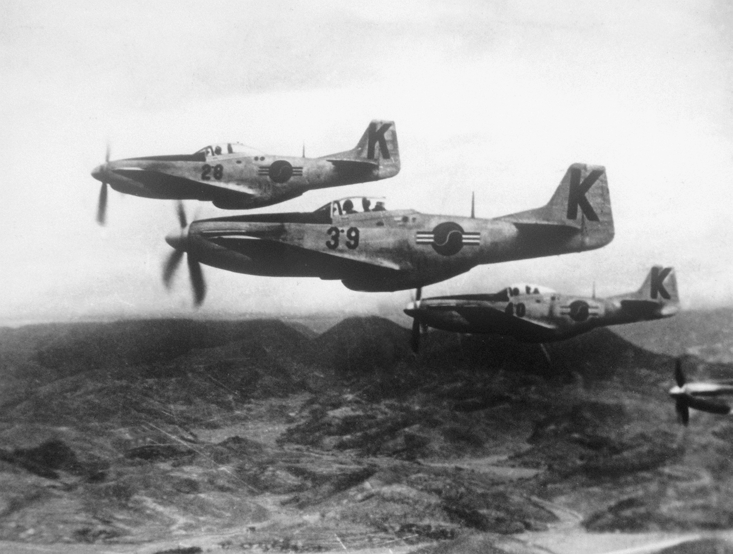 The build-up of aircraft in the Republic of Korea Air Force has been gradual, the North American F-51D being the only operational aircraft used. As part of their training, ROKAF cadets get 80 hours in F-51s.